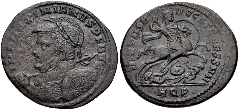 Galerius. AD 305-311. Æ Follis (28mm, 8.64 g, 6h). Aquileia mint, 1st officina. Struck AD 305-306. IMP MAXIMIANUS P F AVG, Laureate, helmeted and cuirassed bust left, holding spear over right shoulder, shield on left arm VIRTUS AVGG ET CAESS NOSTR, Galerius on horseback right, holding round shield and spearing fallen enemy to lower right; another fallen enemy to lower left; AQP. RIC VI 66b. From the Elliott-Kent Collection.